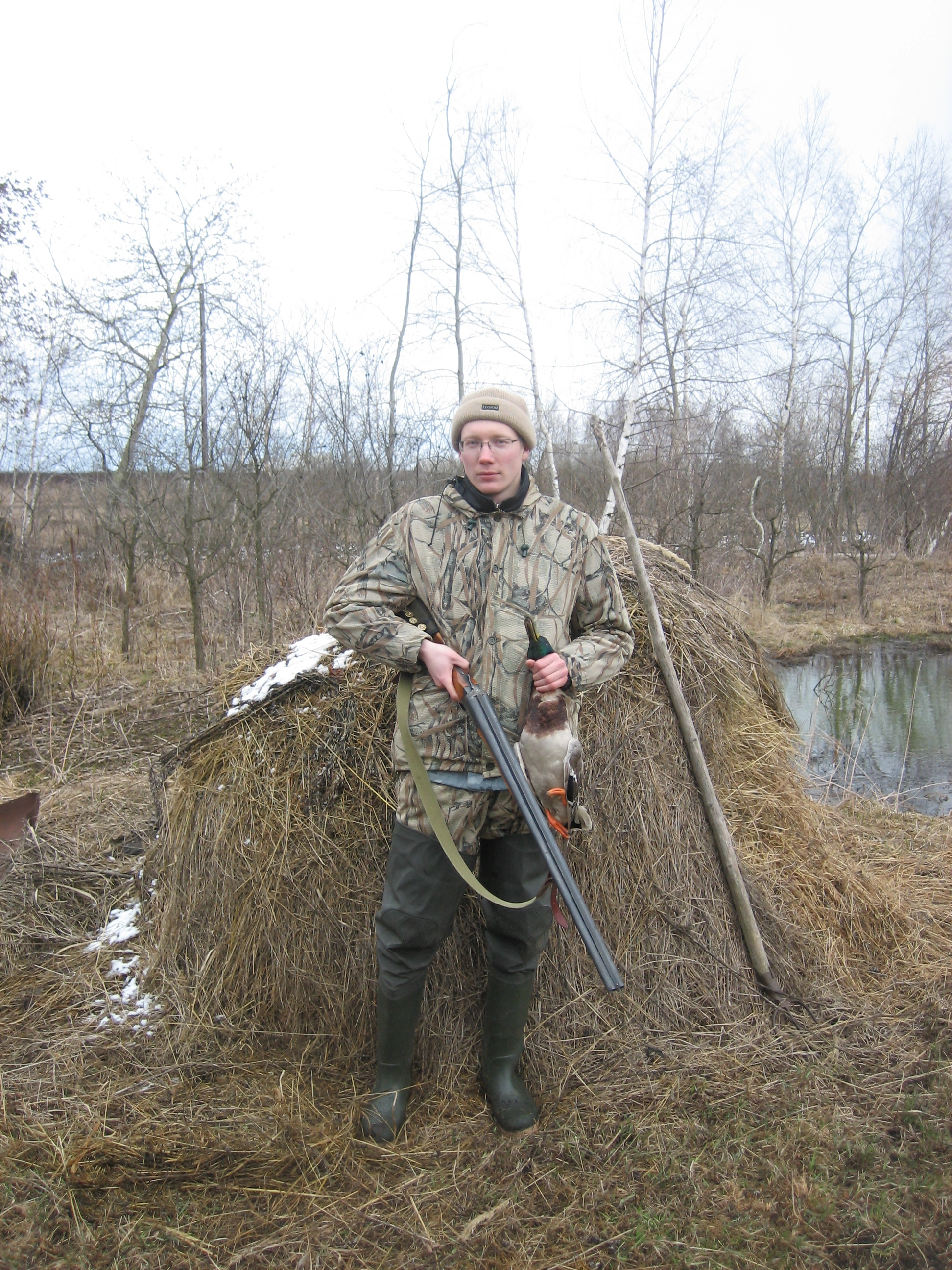 Duck hunter, Russia